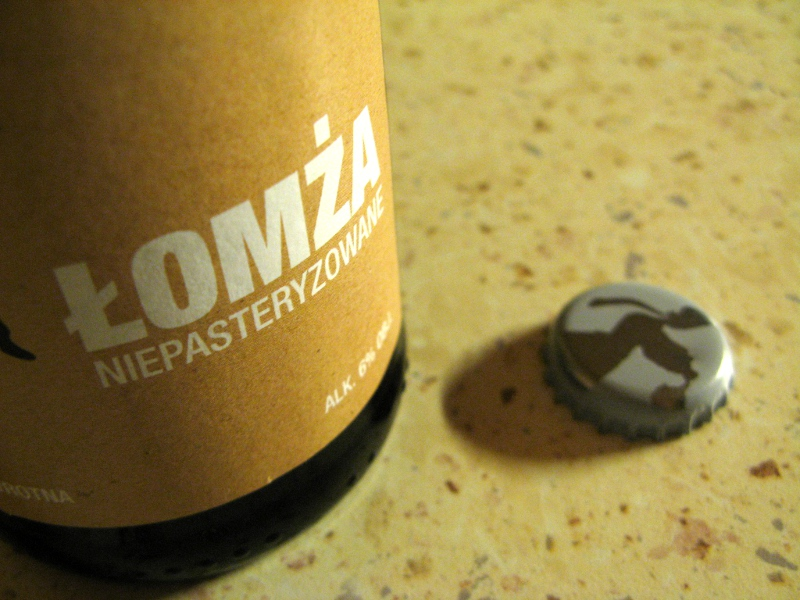 Łomża Niepasteryzowane - beer made in Łomża Brewery